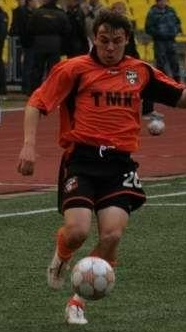 Aleksandr Shchanitsyn as a player of FC Ural